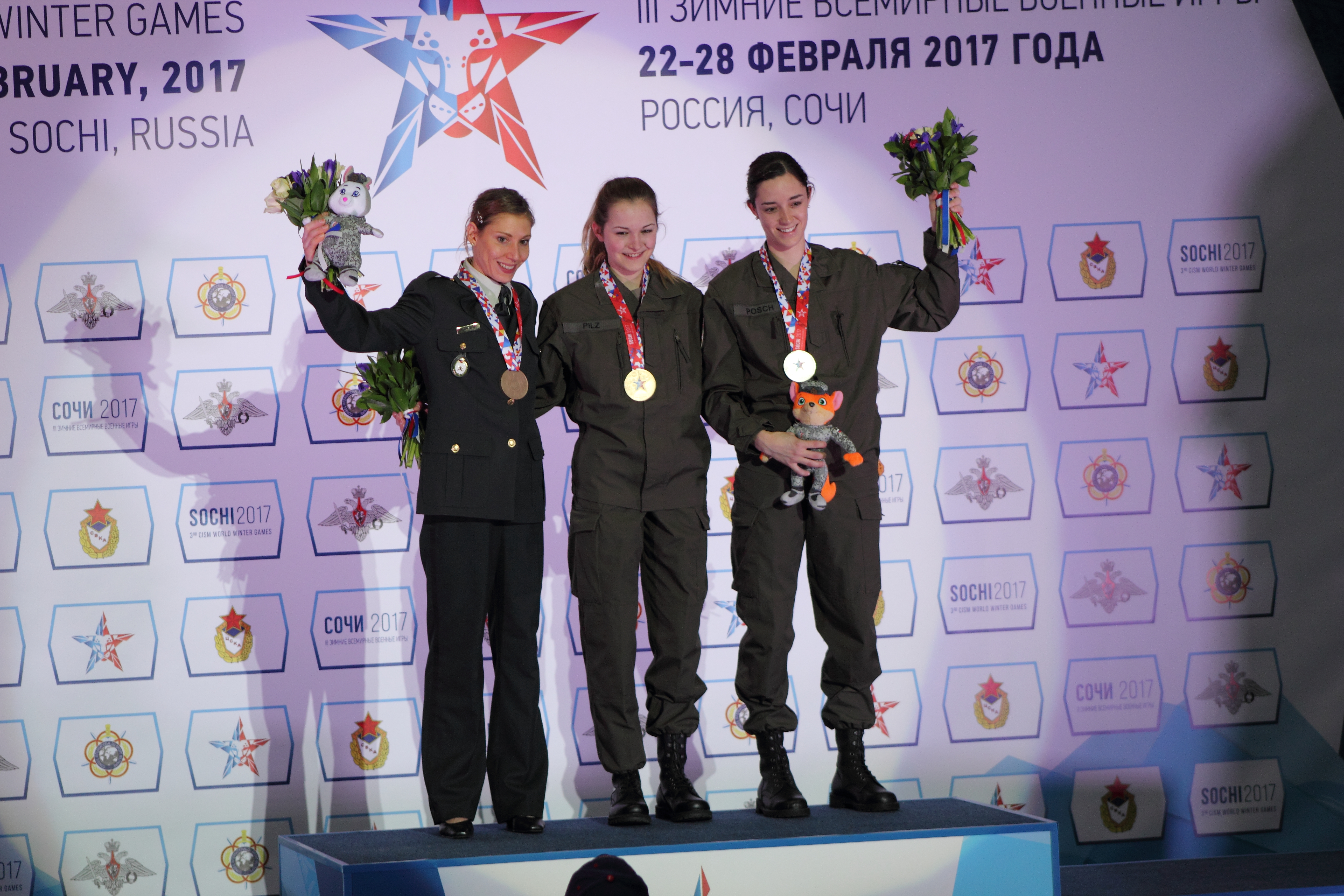 Podium in sport climbing, lead, duels at the 2017 Winter Military World Games